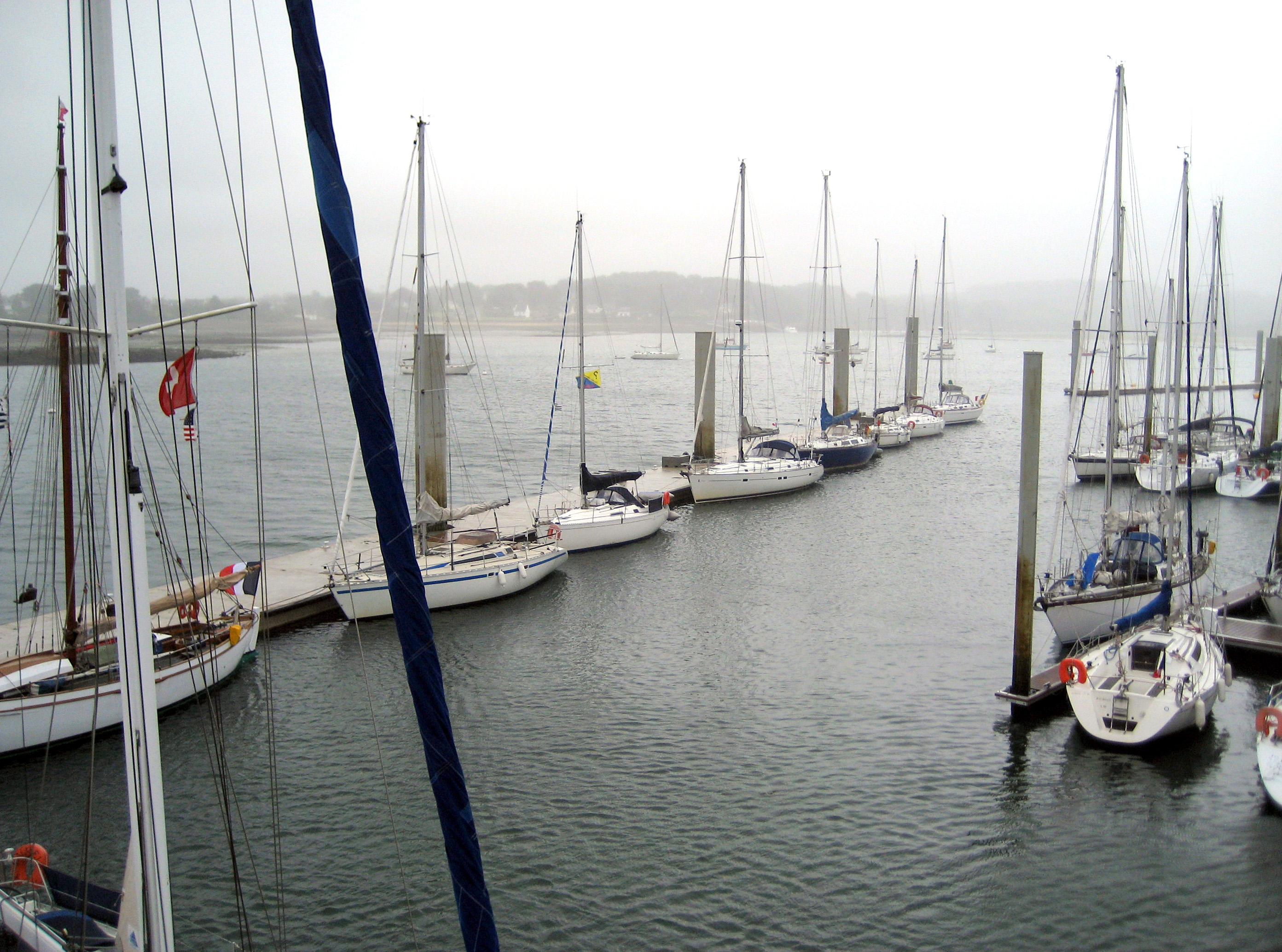 Marina of L'Aber Wrac'h